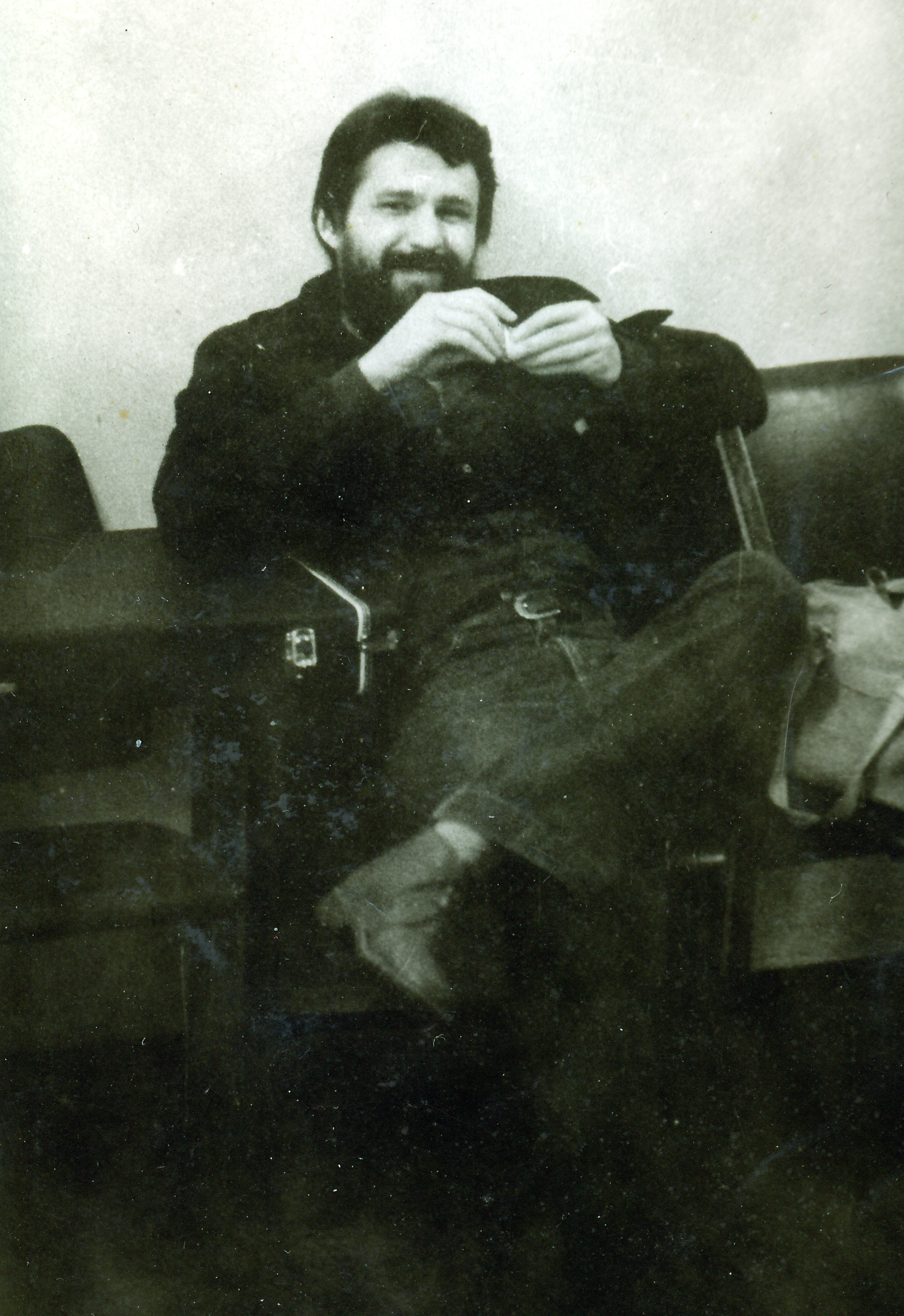 Zdravko Širola, drummer in rock band "Atomic shelter" from Pula (Croatia)